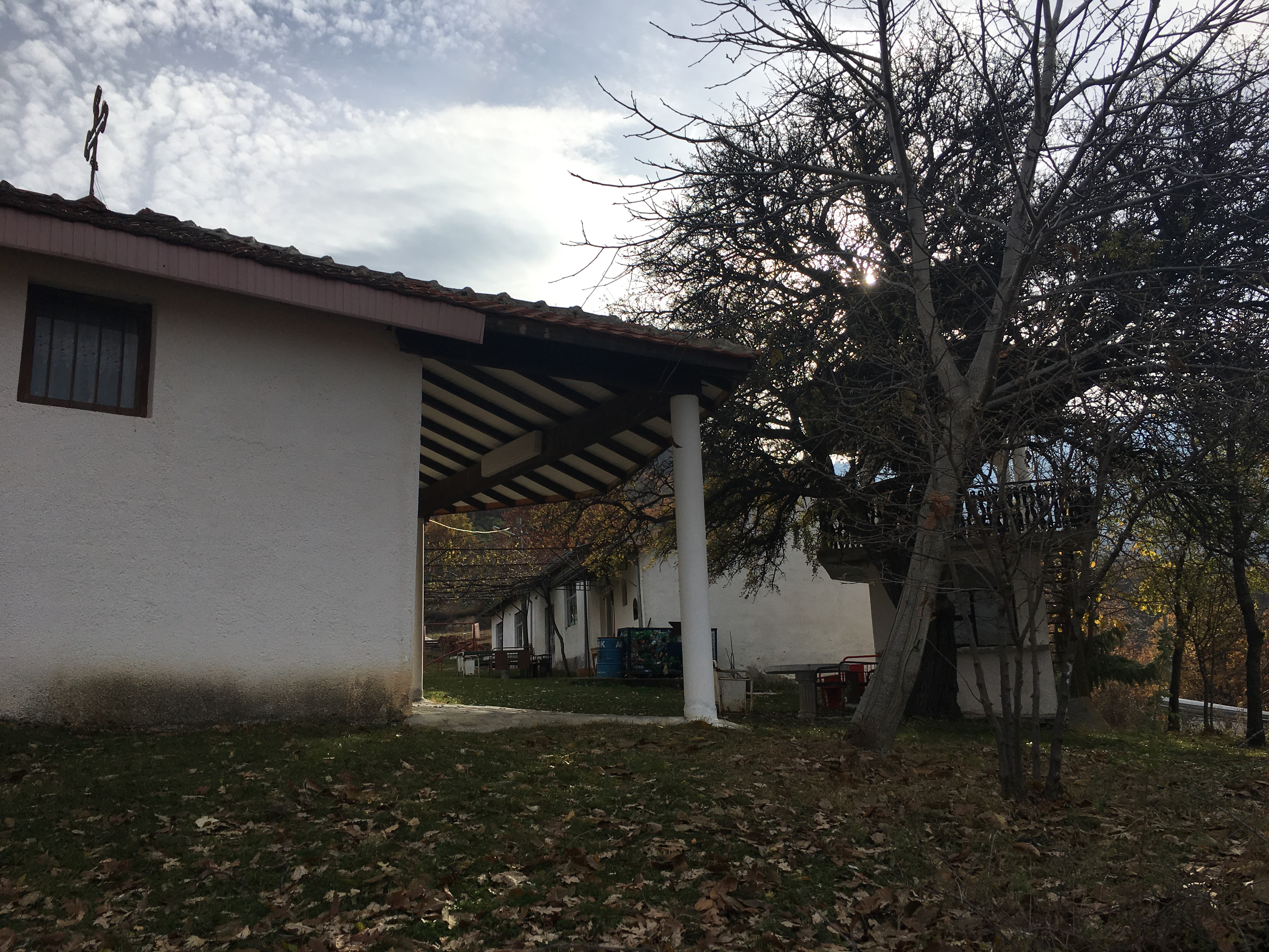 Belovodica Monastery's yard